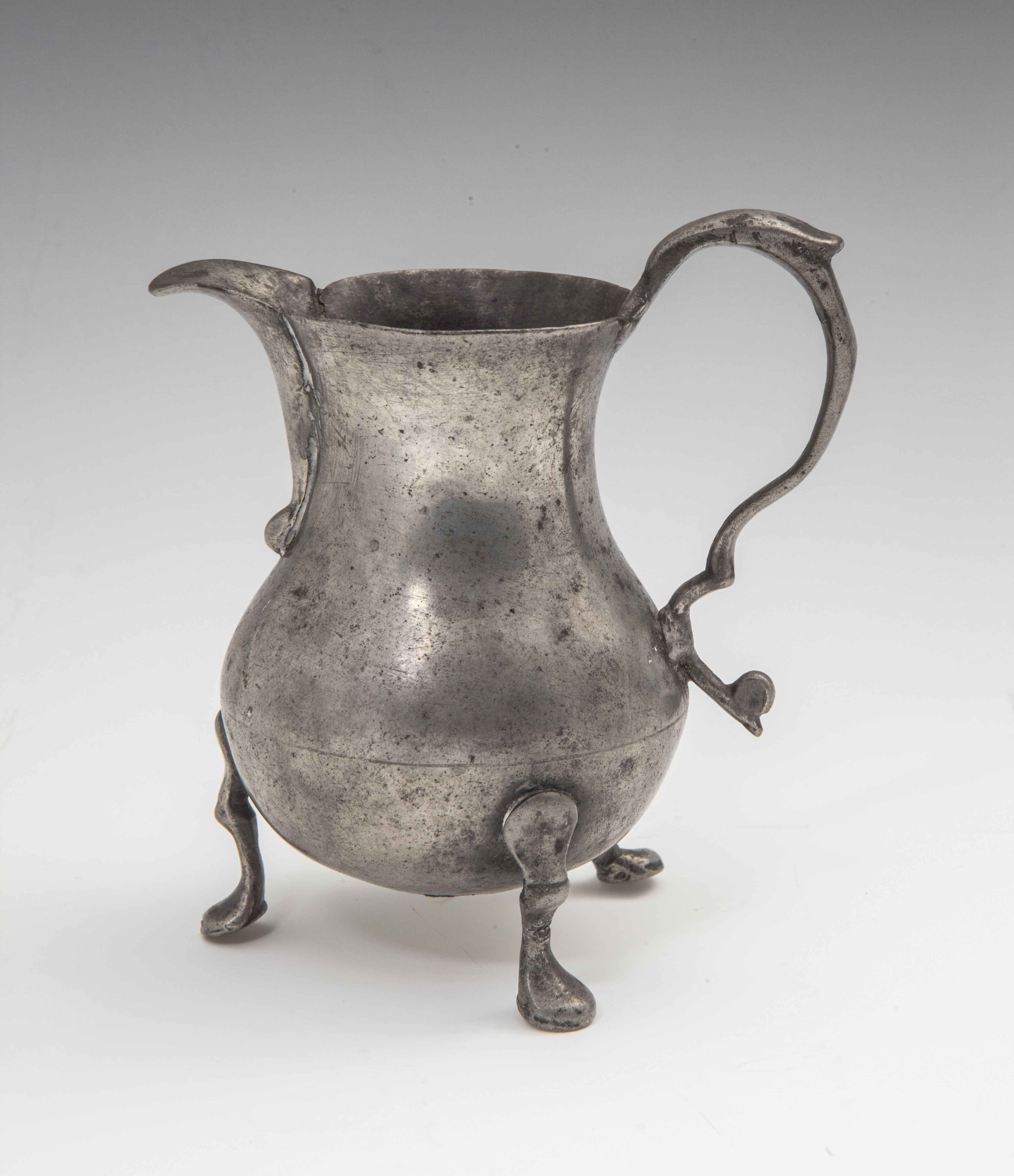 Small pewter cream pitcher. Title: Pewter Cream Pitcher